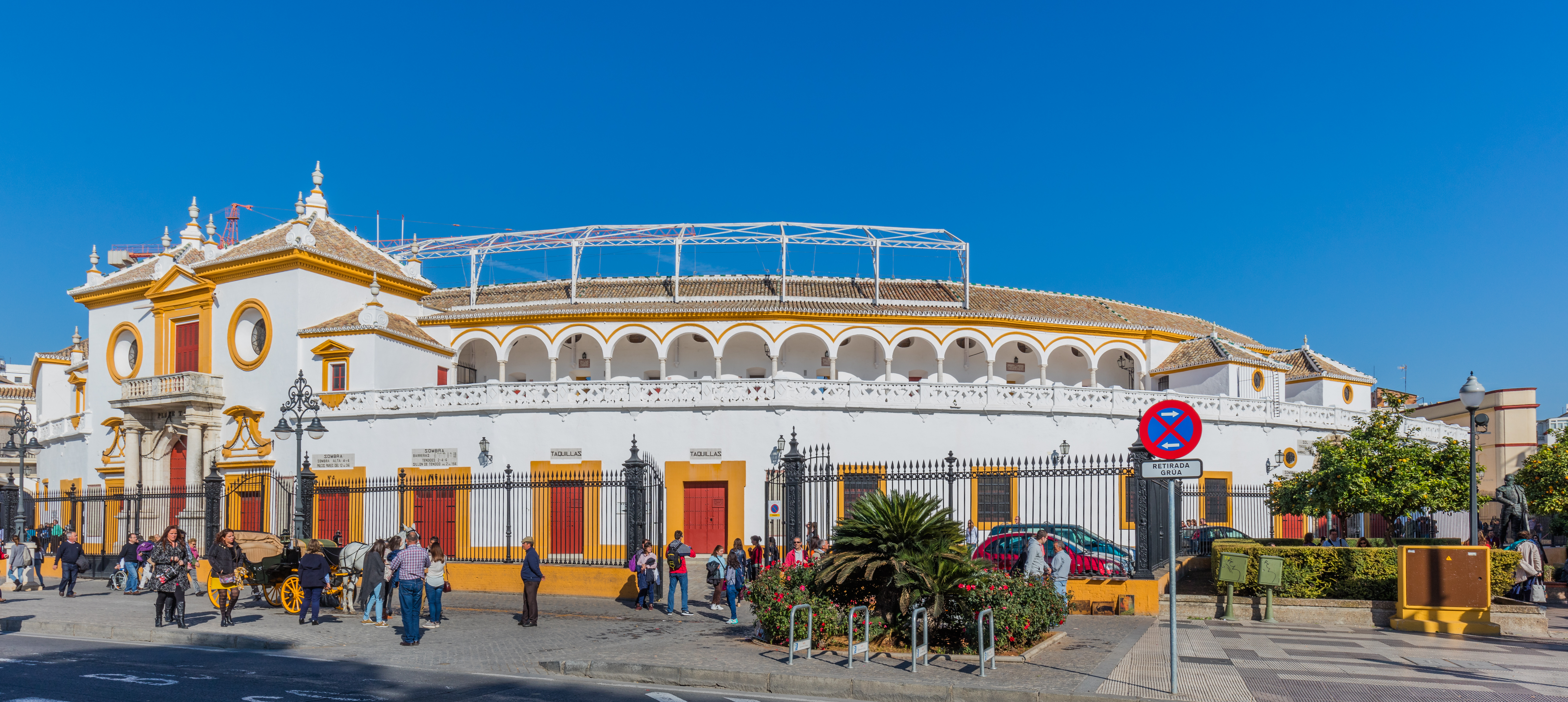 Maestranza bullring, Seville, Spain